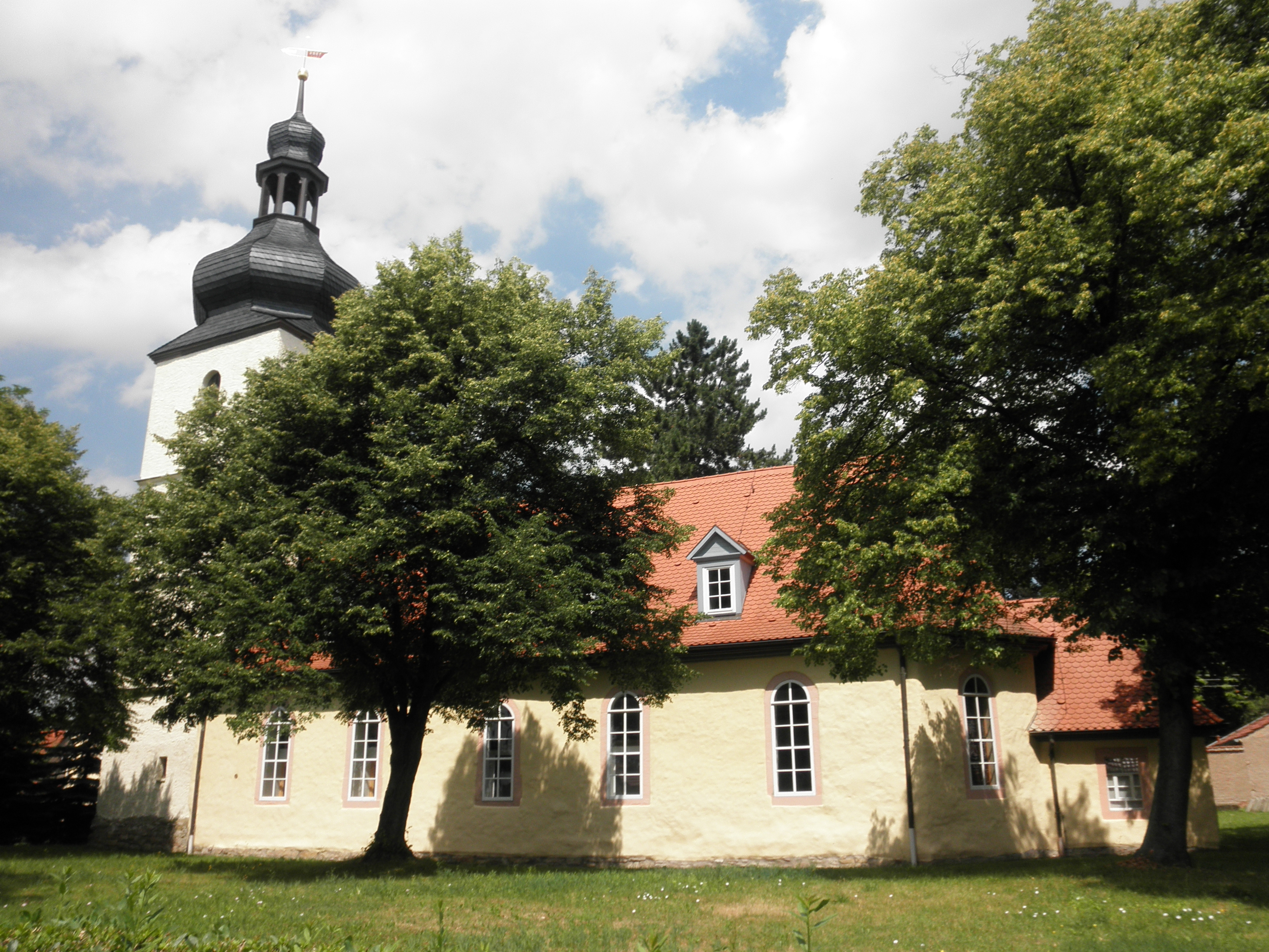 Church in Markvippach (Thuringia)